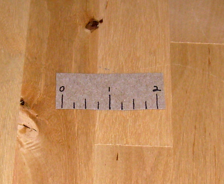 Two inch ruler for troll with shortcomings.